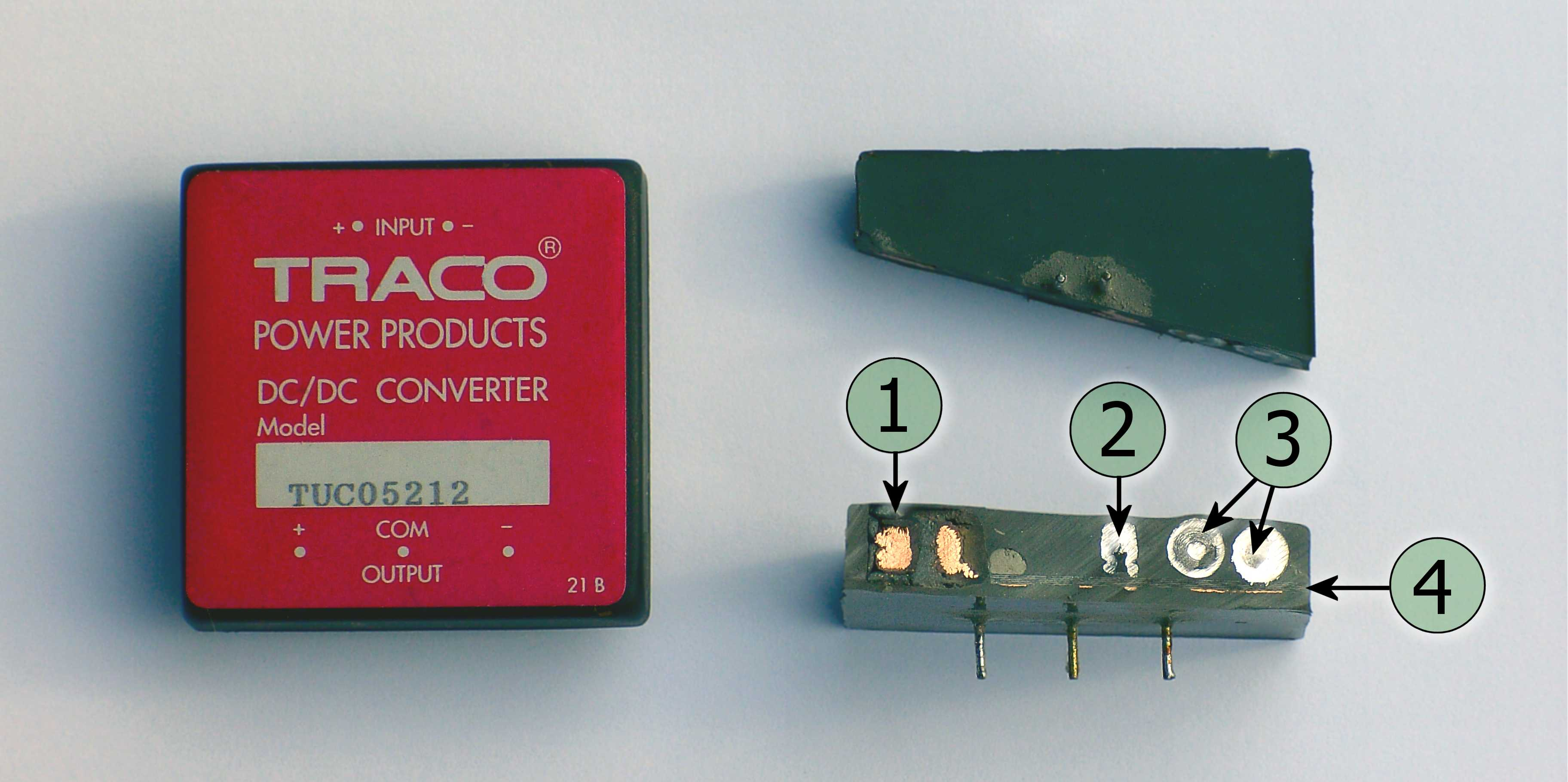 Push-pull forward converter (+12V → ±18V; 50W) as cast-in module. ① transformer; ② and ③ capacitors standing or lying; ④ discrete circuit board in through-hole technology